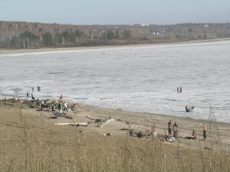 Picture of the frozen Ob water reservoir south of Novosibirsk (Russia) in spring.